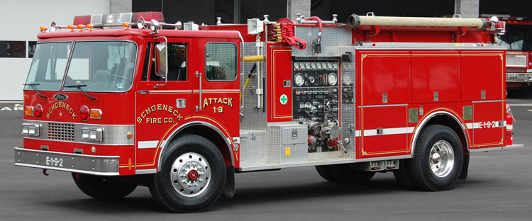 Schoencek PA Firetruck, Engine 1-9-2 Schoeneck, Pennsylvania.